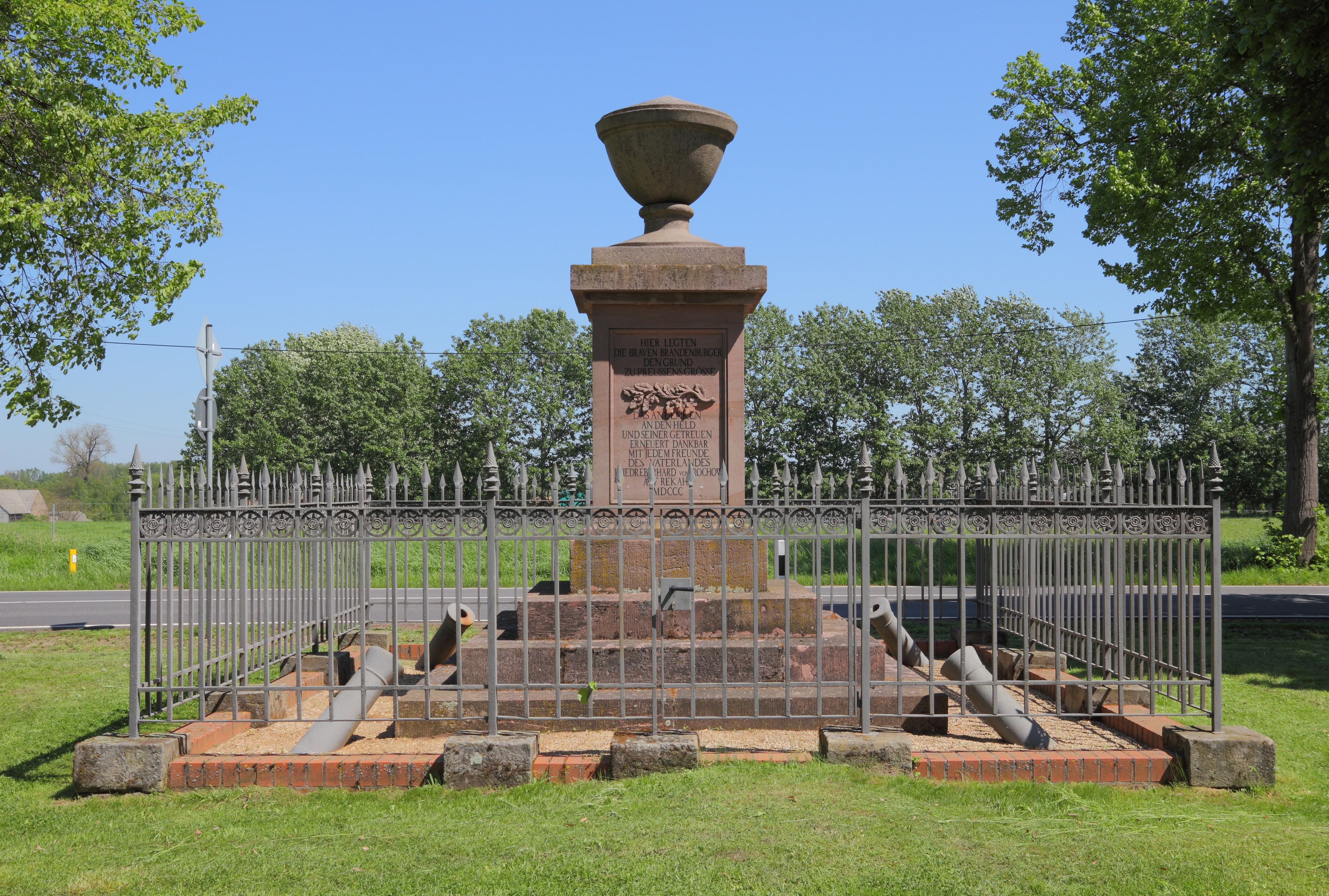 Memorial of the Fehrbellin Battle in Hakenberg, Brandenburg, Germany